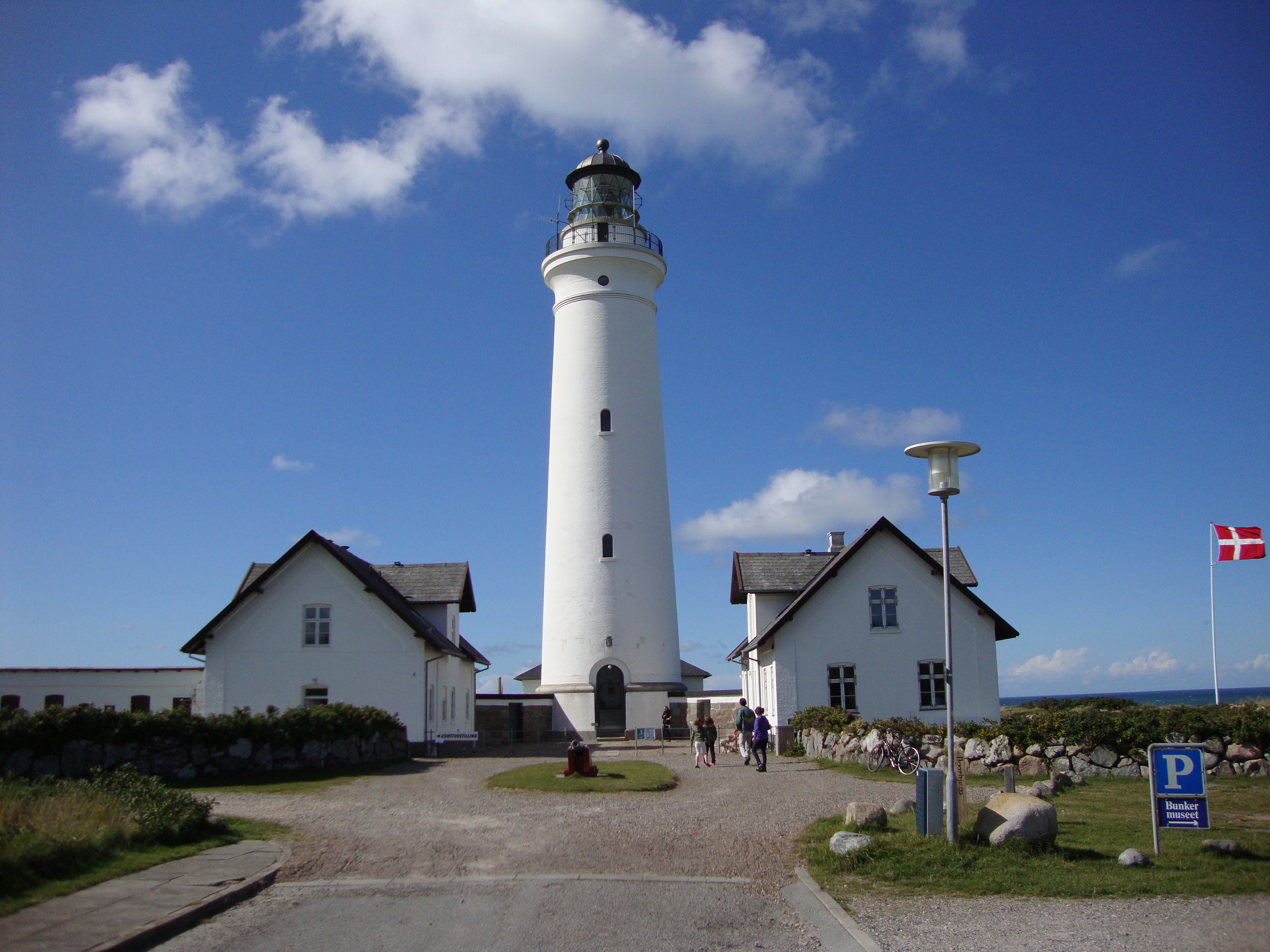 Hirtshals Lighthouse from east.